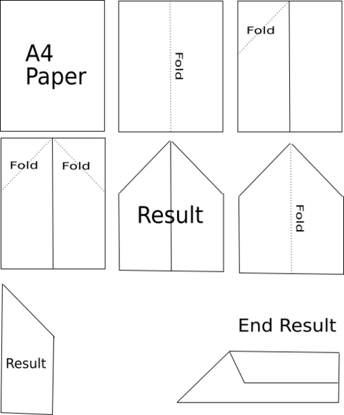 Diagramma d'apparecchiu di carta.